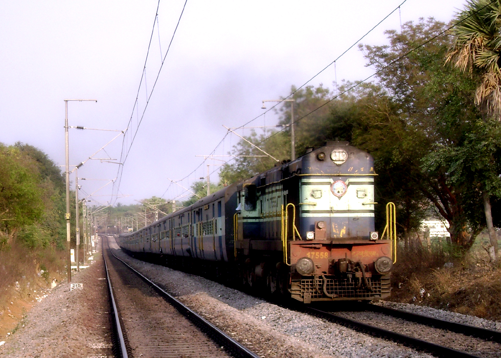 Delta Passenger with WDM-2 loco at Ghatkesar